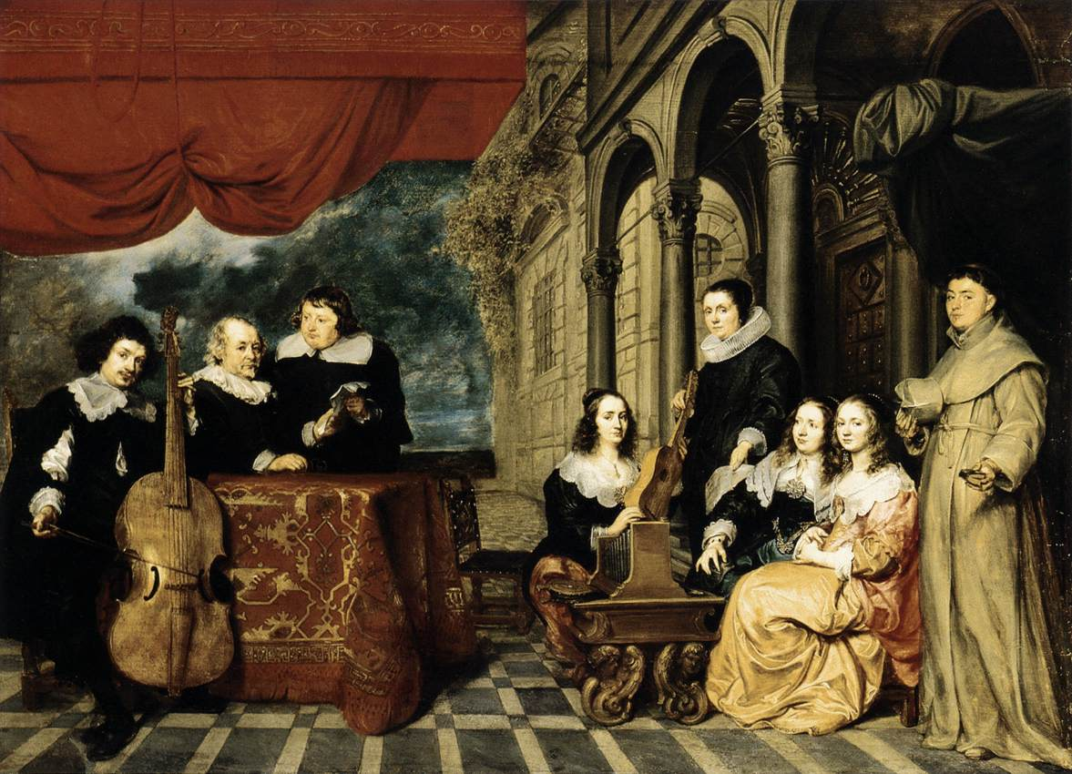 Family Portrait